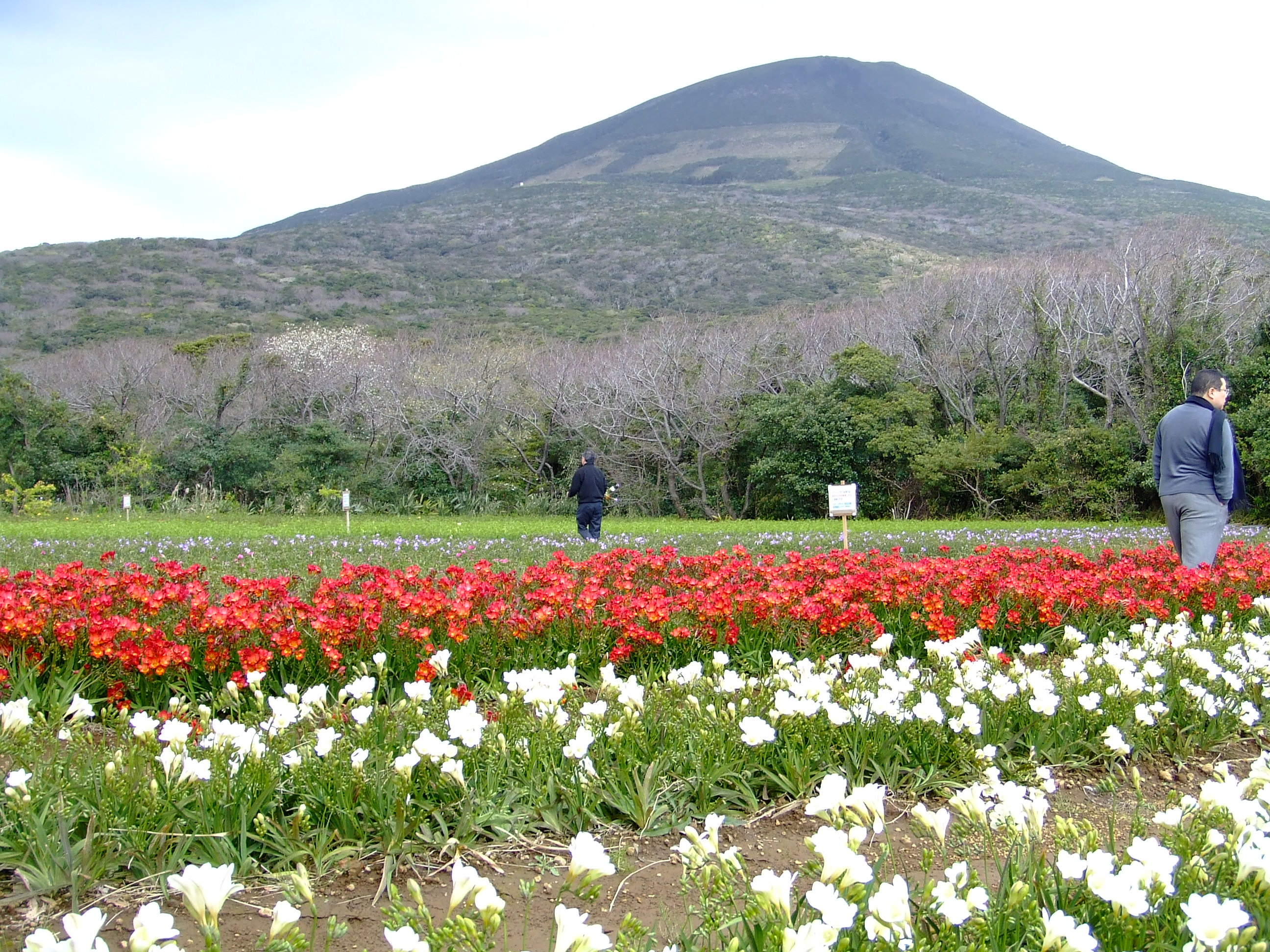 The Freesia Festival, with Mt Hachijo-Fuji in the background, on Hachijo-jima in Japan. I took the photo with a digital camera on 21st March 2007.